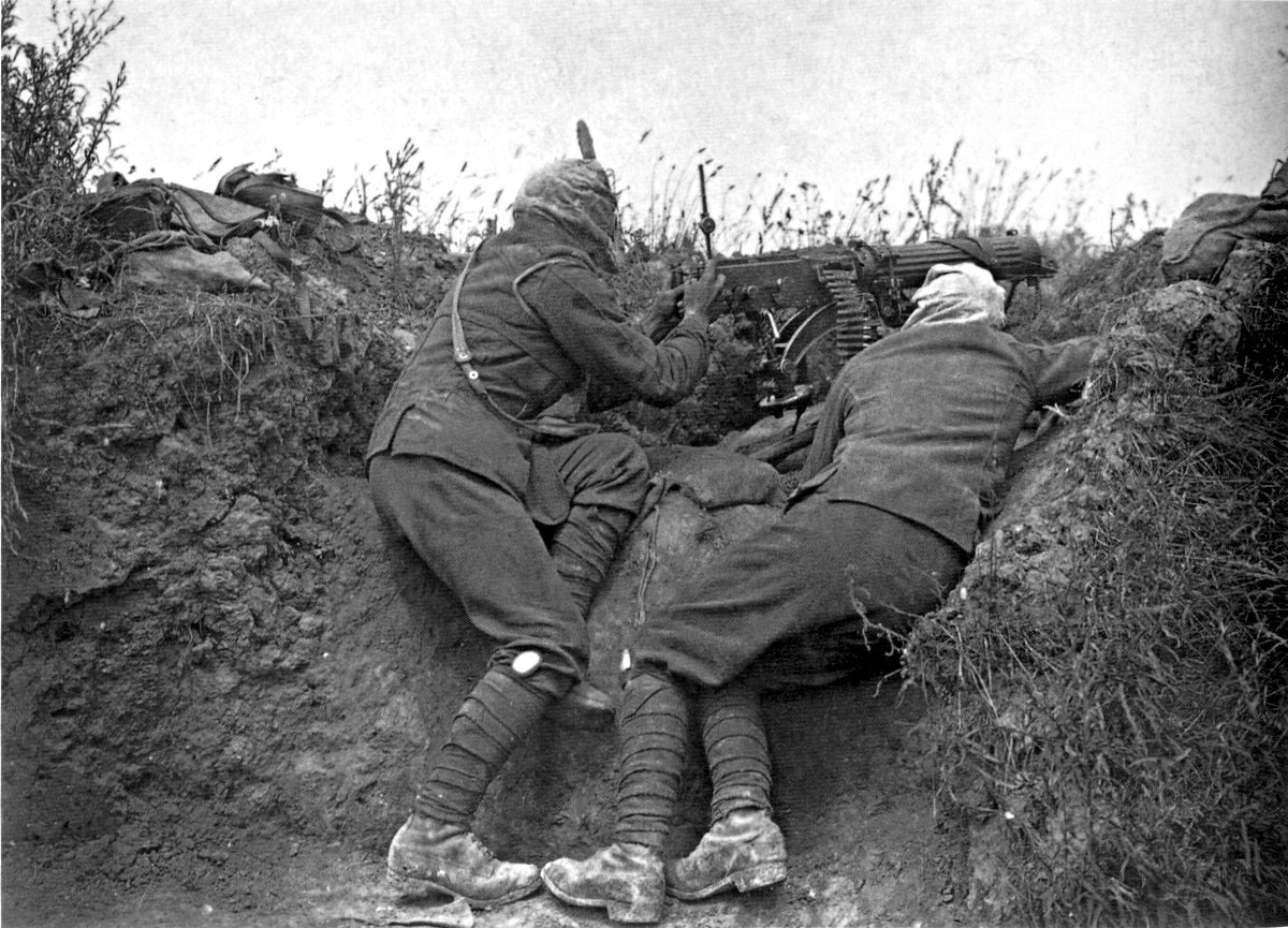 British Vickers machine gun crew wearing PH-type anti-gas helmets. Near Ovillers during the Battle of the Somme, July 1916. The gunner is wearing a padded waistcoat, enabling him to carry the machine gun barrel. Both men have spoons tucked into their puttees. See Image:Vickers machine gun crew with gas masks.jpg for an alternate view of this crew.